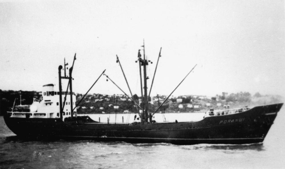 862 GRT coaster Poranui, built in 1956 by J Bodewes of Hoogezand, the Netherlands for the Northern Steam Ship Co Ltd, New Zealand